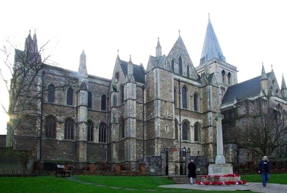 Rochester Cathedral, north east view